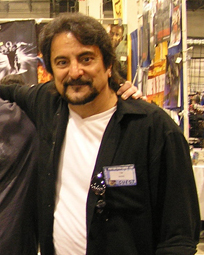 Me, Rick, and Tom - notice me carrying the bad-ass Rainbow Brite purse I bought for my wife. He was totally impressed by it. Cropped.Tom FREAKIN Savini!!!